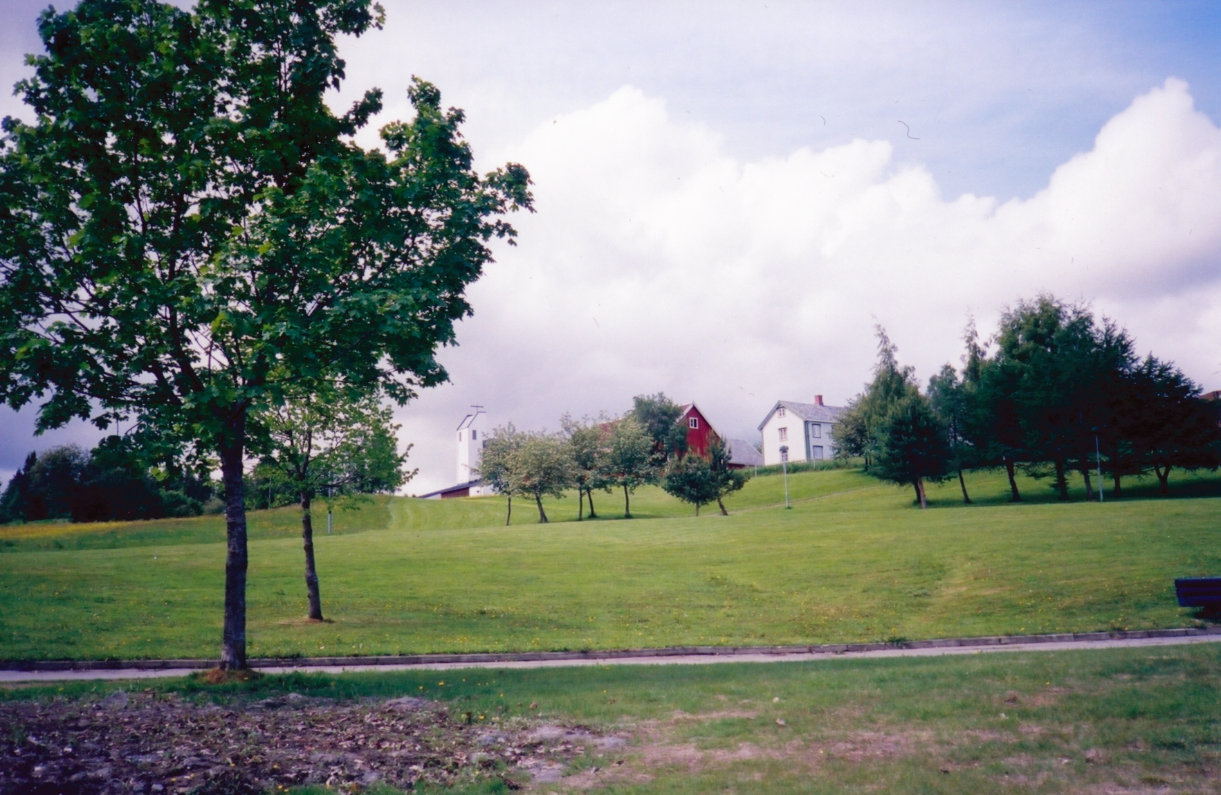 Format: Fotopositiv Dato / Date: 2003 Fotograf / Photographer: Byantikvaren Sted / Place: Huseby / Saupstad, Trondheim Eier / Owner Institution: Trondheim byarkiv, The Municipal Archives of Trondheim Arkivreferanse / Archive reference: Byantikvaren - Skoler i Trondheim 2003 - A1.S1.BC122